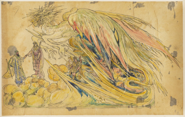 Float design from Mistick Krewe of Comus' 1910 parade, New Orleans. Float title: "Al Borak".